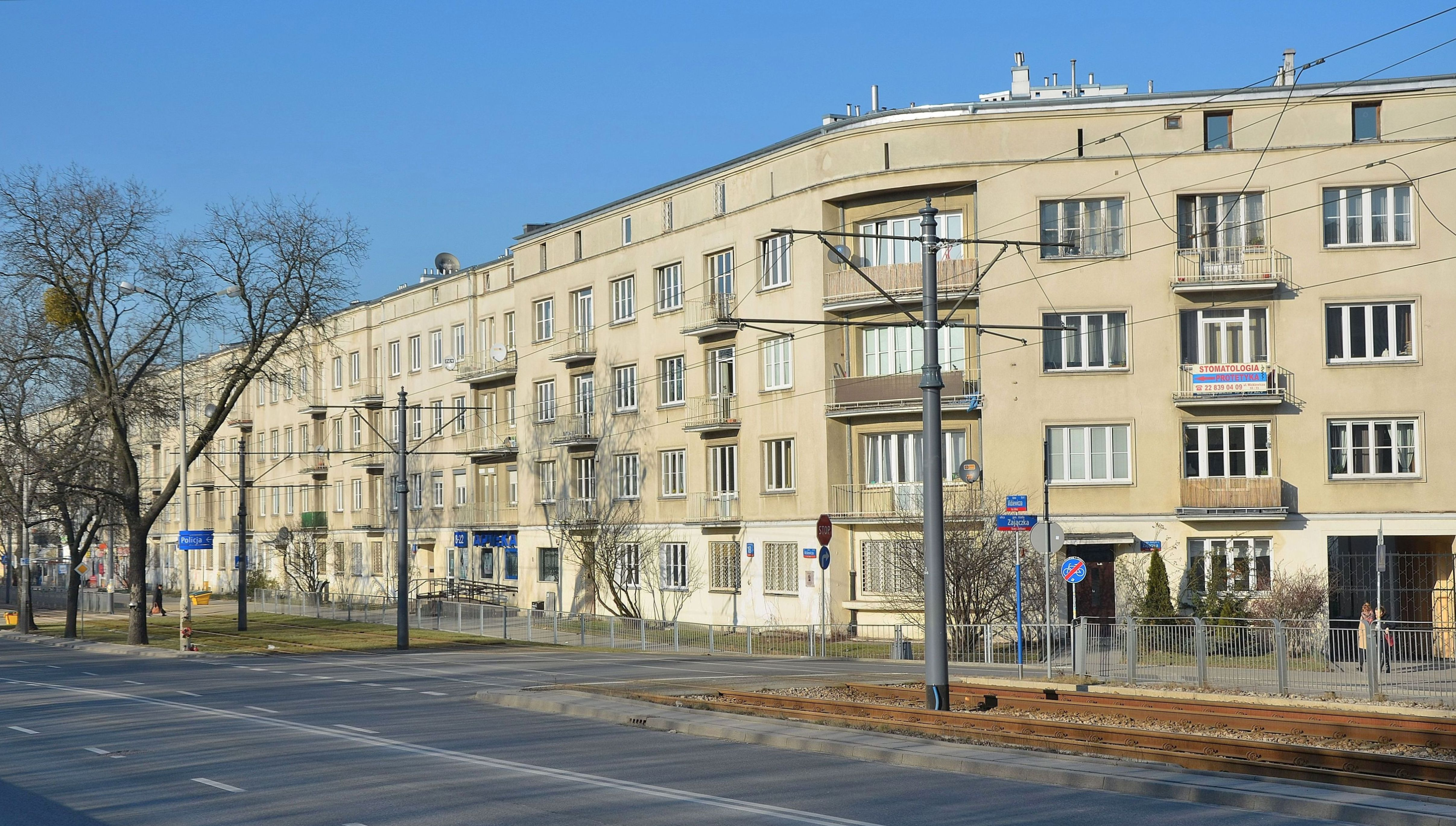 Townhouse at 18 Adam Mickiewicz street in Warsaw